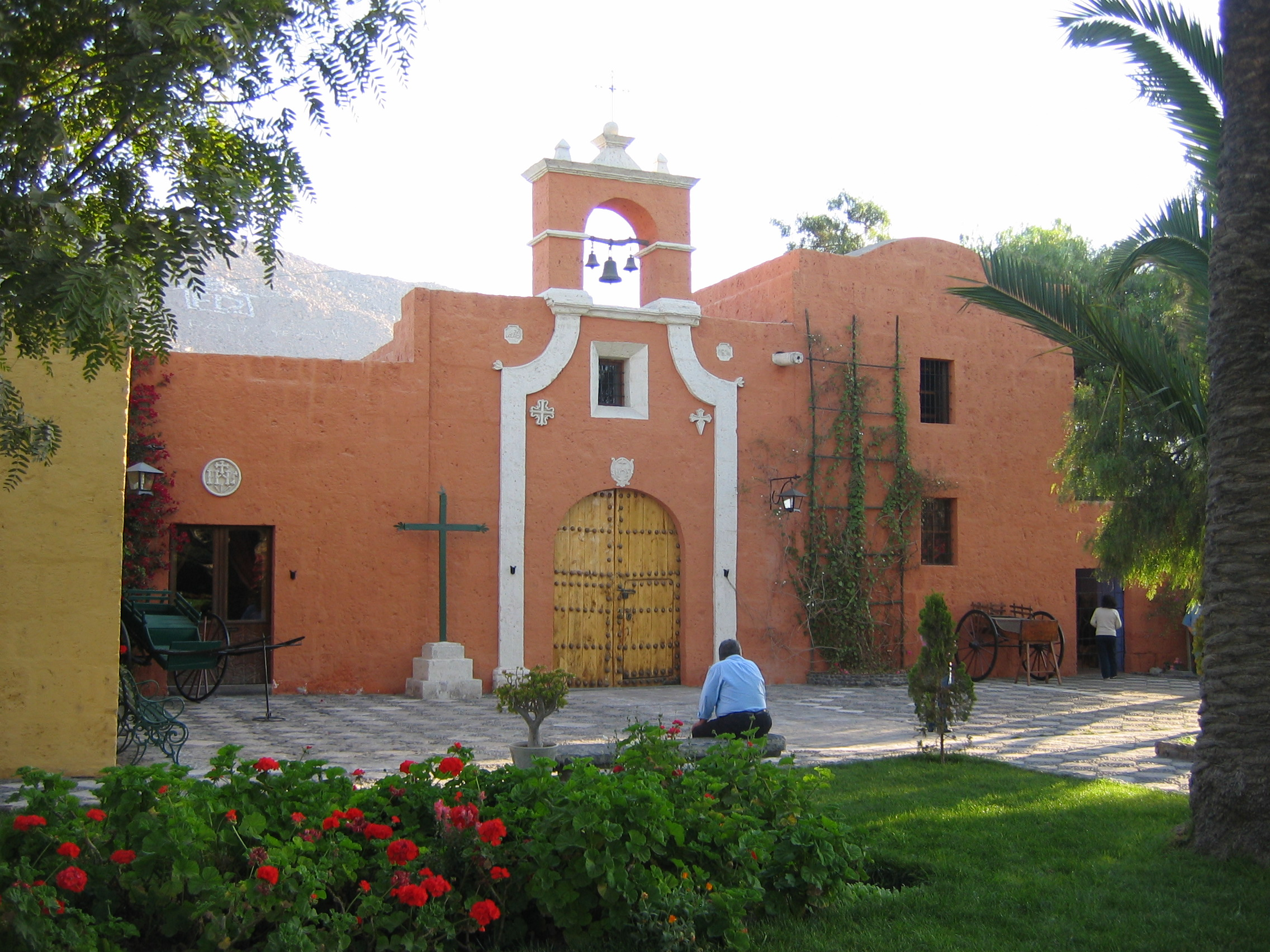 House of Garcí Manuel de Carbajal — founder of the city of Arequipa in 1540, in the Viceroyalty of Peru.